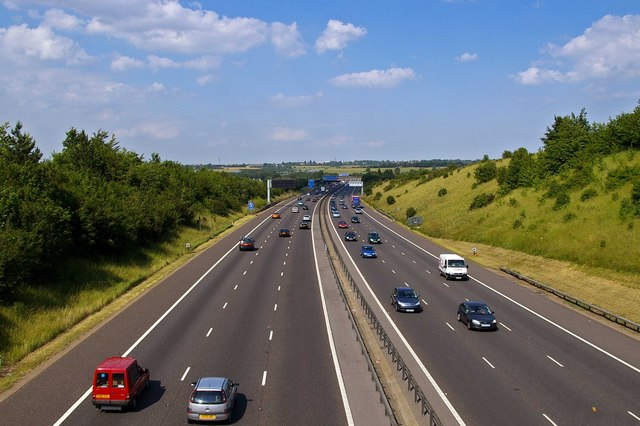 M25 Near Sutton Hone. This is the M25 looking anti clockwise towards the Dartford Crossing. The picture was taken from the bridge at Clement Street between Hextable and Sutton Hone